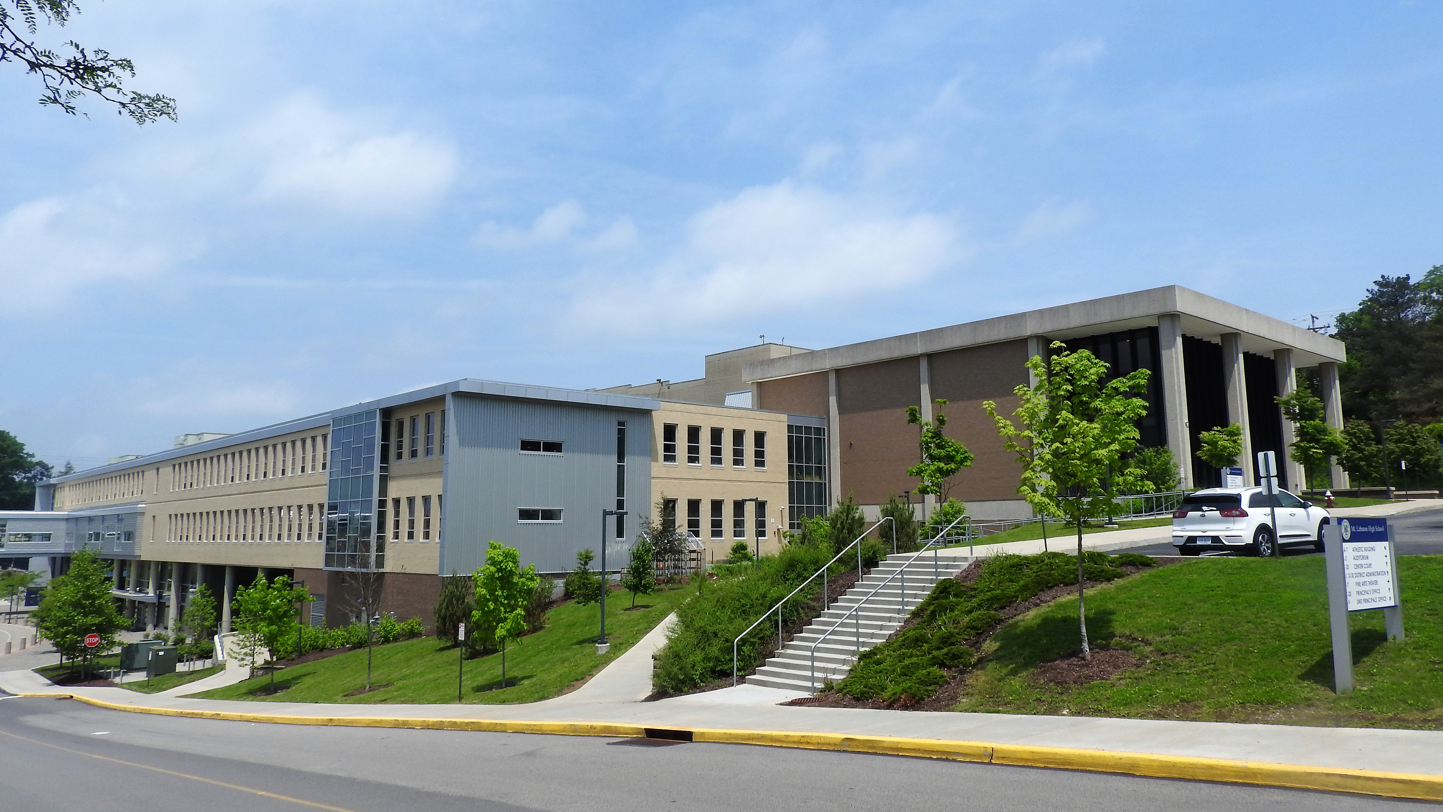 Looking north at high school from driveway